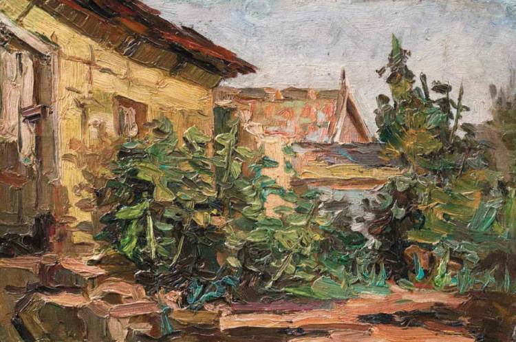 «Corner of summer residences», Ist quarter 20thC board, oil; 17х26; at the bottom in the middle «Д…» On the back «Уголок Дачи Т. Дворников» Dvornykov Tyt Yakovych (1862 - 1922)